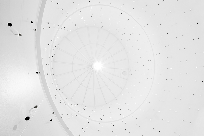 329 prepared dc-motors, cotton balls, toluene tank⎢Zimoun 2013. Permanent Installation